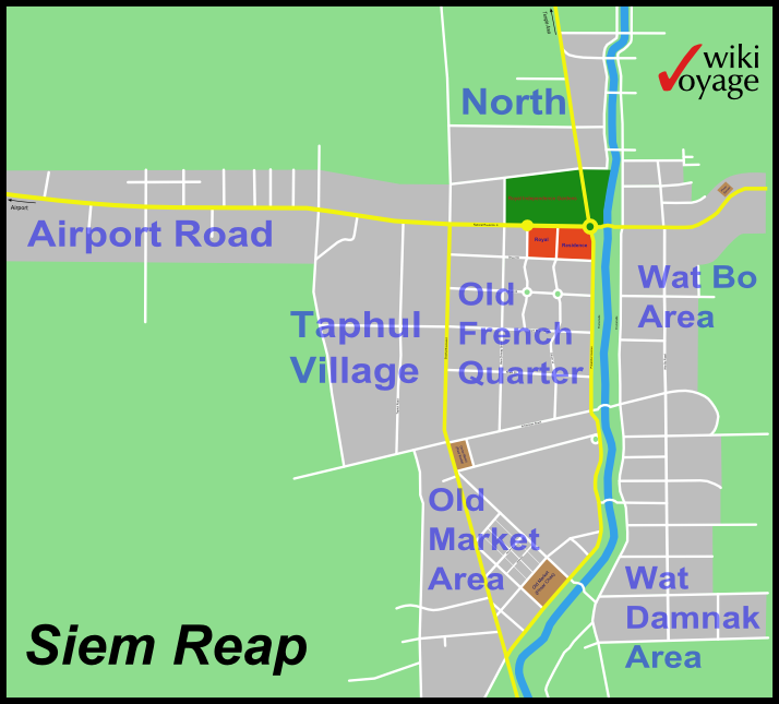 Map of Siem Reap depicting the quarters